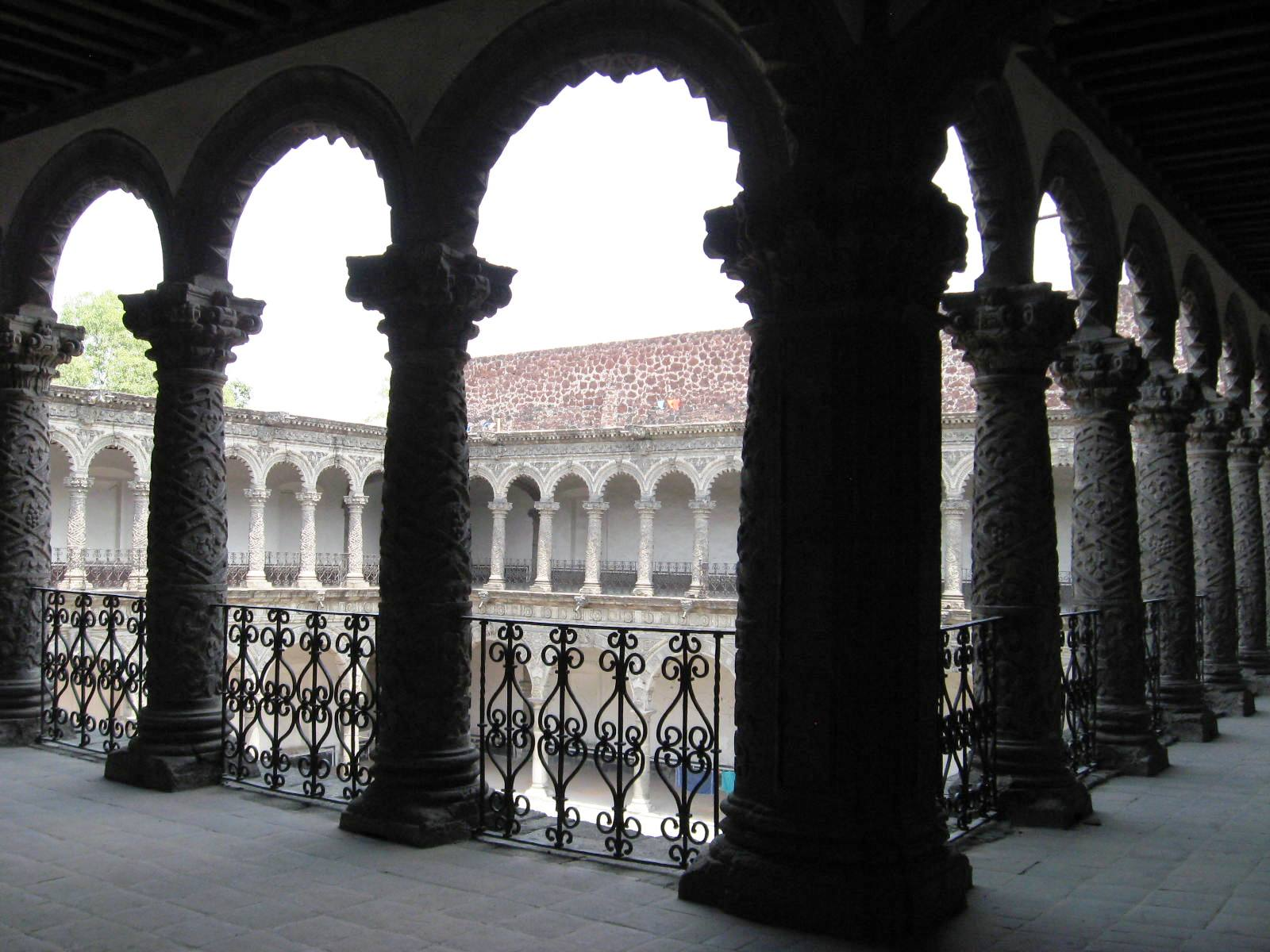 View of patio area from behind the columns of the upper floor of the La Merced Cloister in Mexico City.